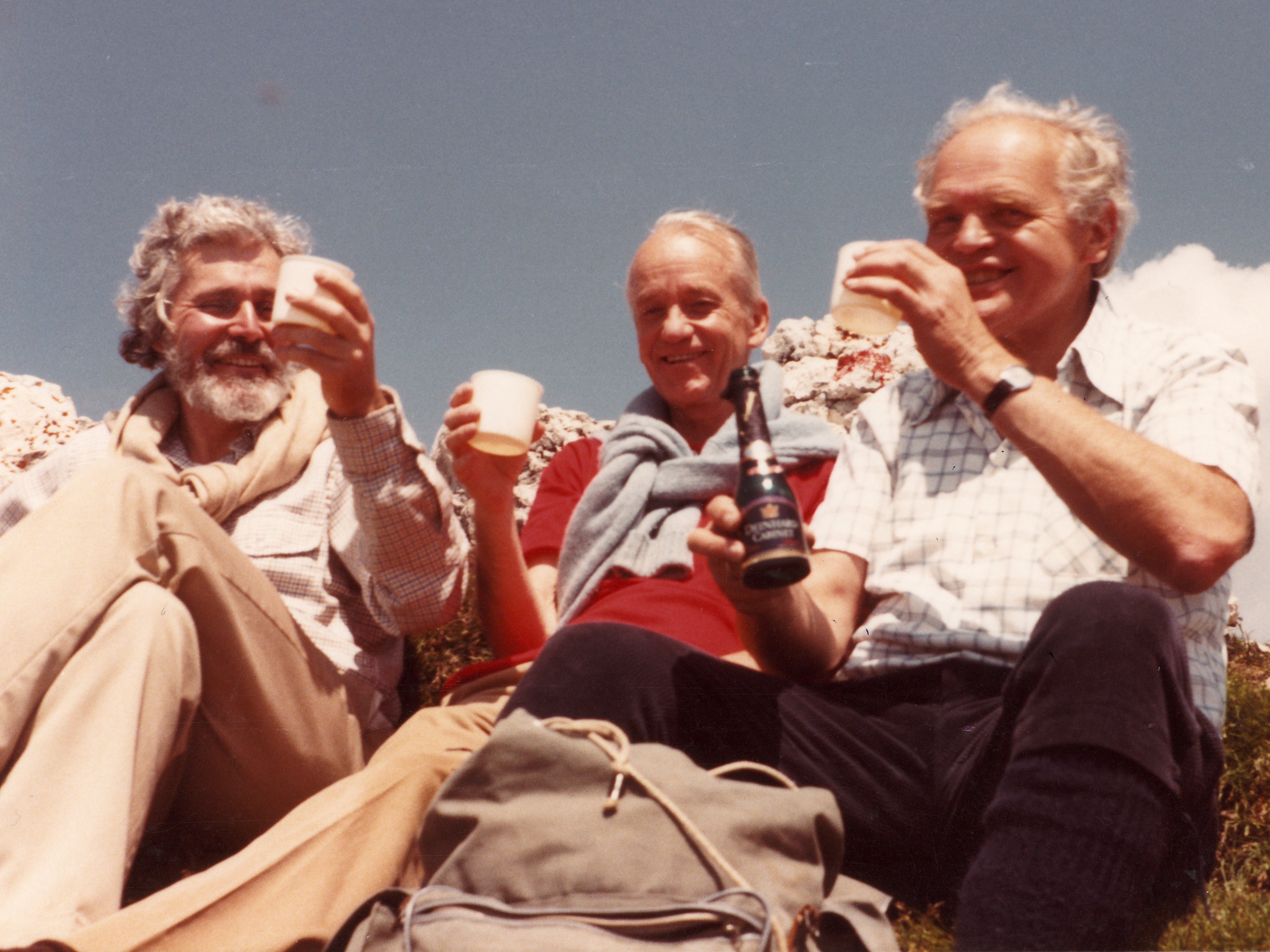 Carl Woese (left), Ralph Wolfe and Otto Kandler (right) celebrating the "archaebacteria" on top of Mt. Hochiss (2299m, Austria), after the first international conference on (at that time) "archaebacteria", which was organised by Kandler in Munich, in 1981. Photo published inː Schleifer, K. H. (2011). Prof Dr Dr h.c. mult Otto Kandler: distinguished botanist and microbiologist. The Bulletin of BISMiS, Vol. 2, part 2, pp.141-148 (December 2011) (Bergey's International Society for Microbial Systematics)